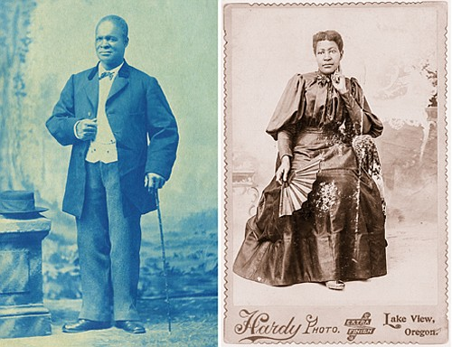 Pictures of two unknown African-American